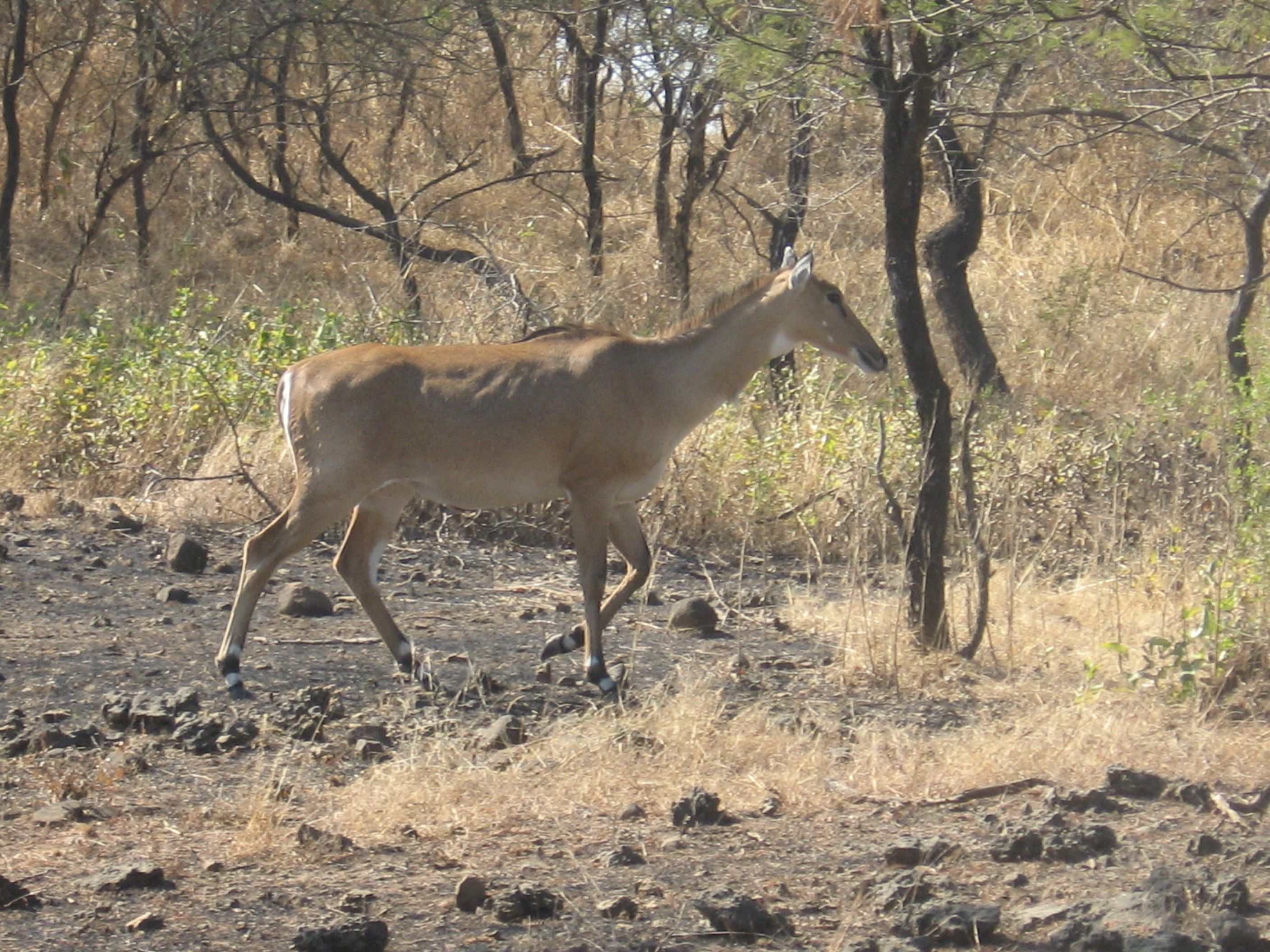 Female Nilgai, Gir forest, Gujarat, India